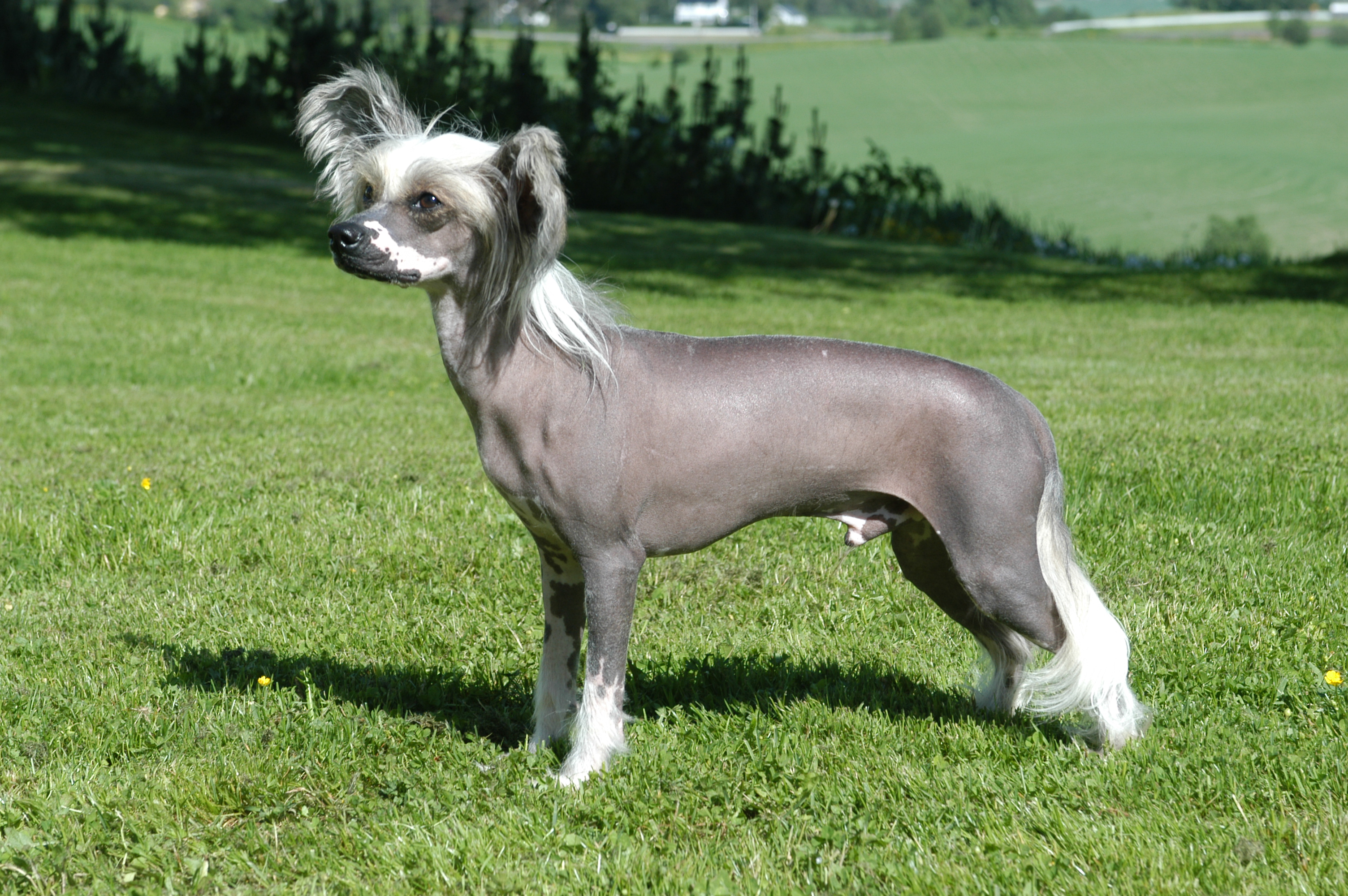 Hairless Chinese Crested dog Zucci High Virtue - Indy (2004-2011).